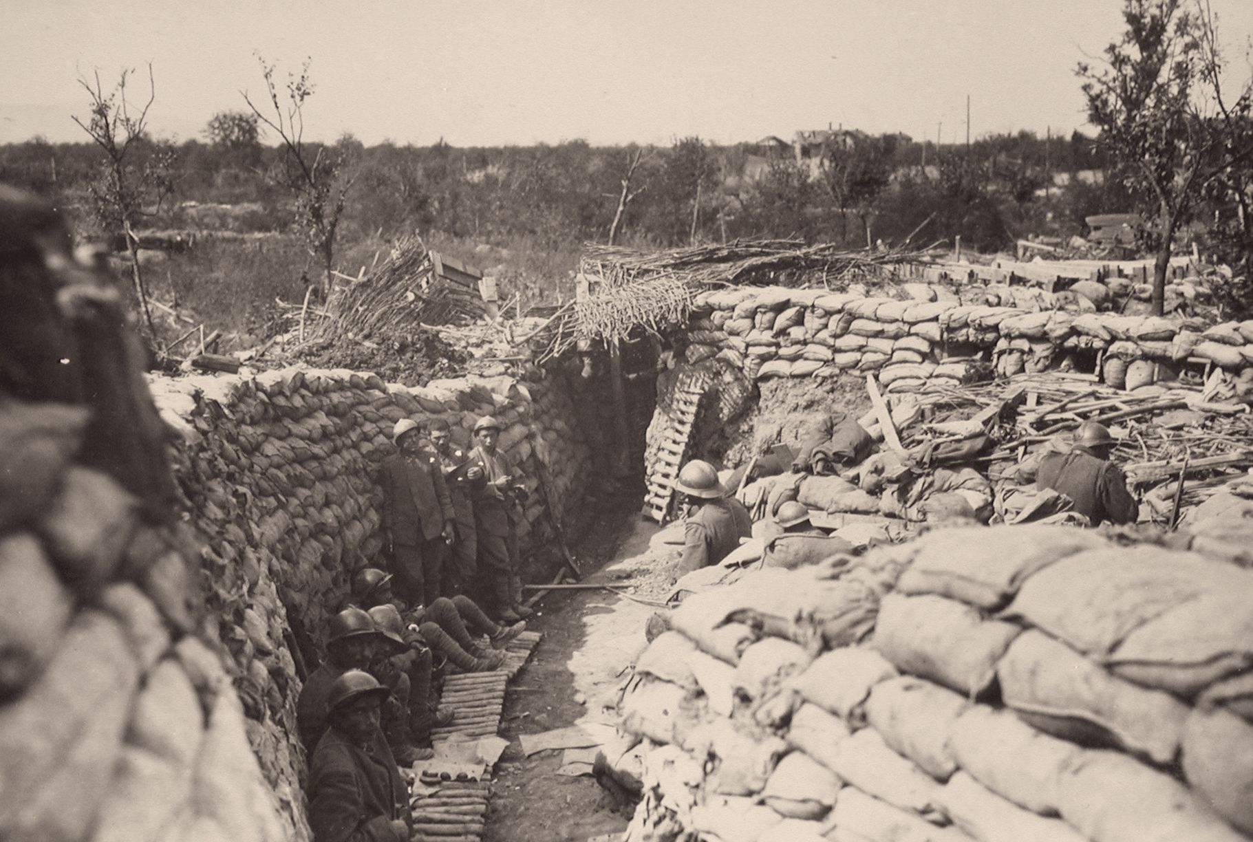 World War 1 - Italian Army: Fifth Battle of the Isonzo - Italian lines